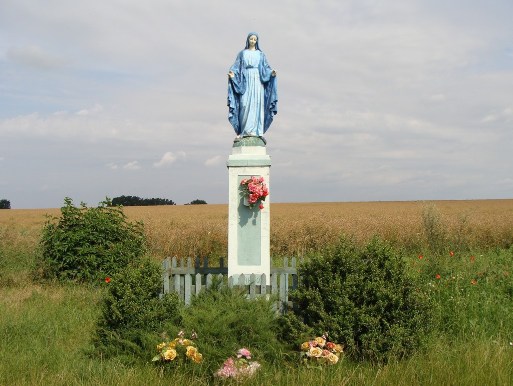 Mełpin, roadside shrine.